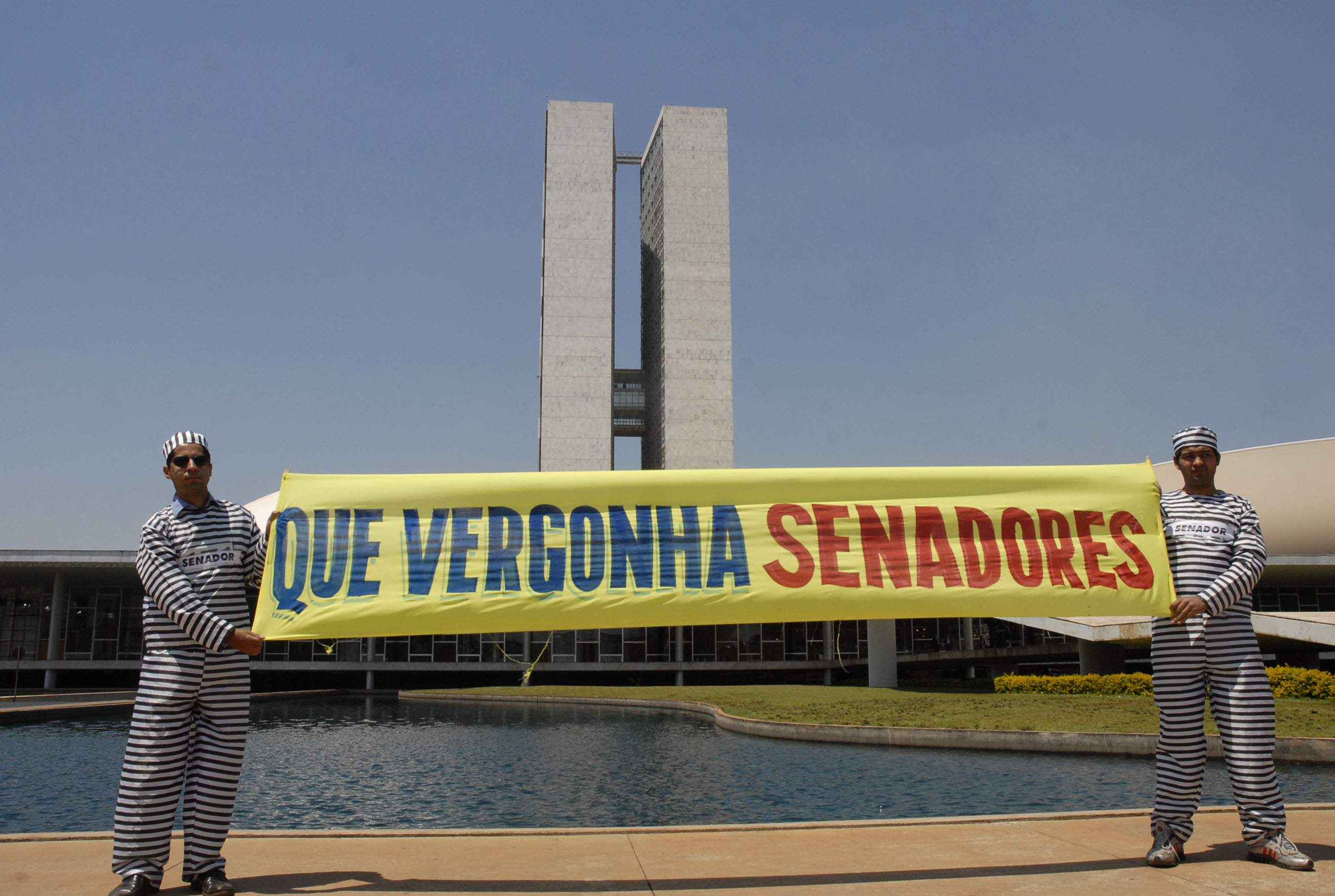 Two brazilian people protest against the decision of the brasilian Senate to set its President, Renan Calheiros, free of charges.